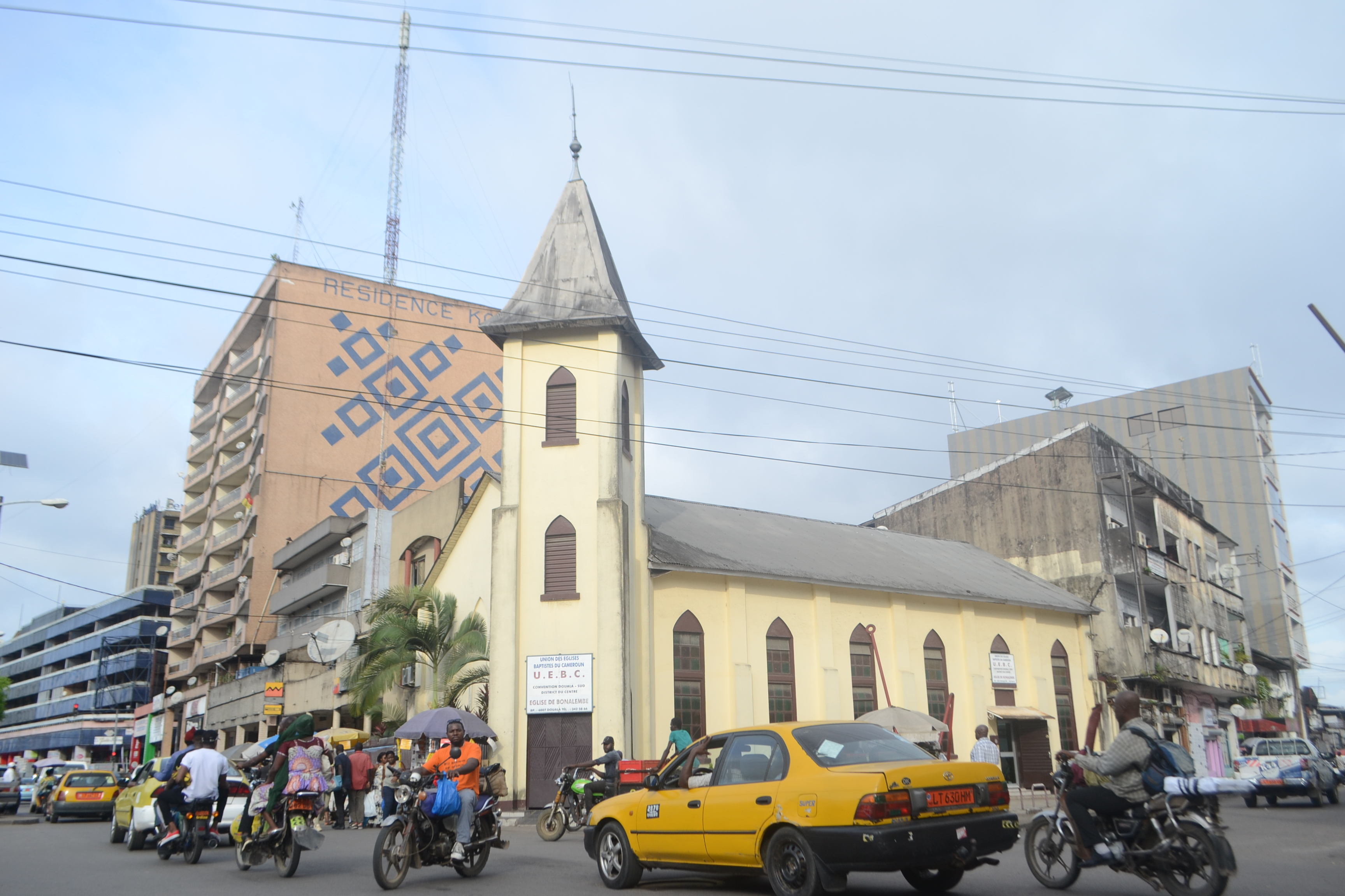 This is an image with the theme "Africa on the Move or Transport" from: Cameroon